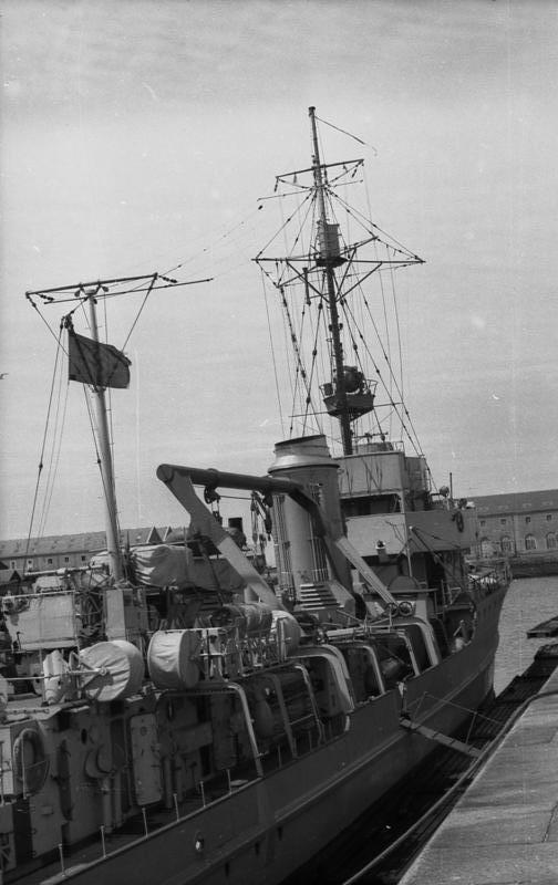 Information added by Wikimedia users.